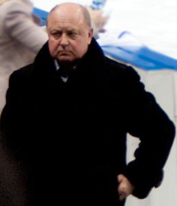 2010 Cup of Russia, free skating.